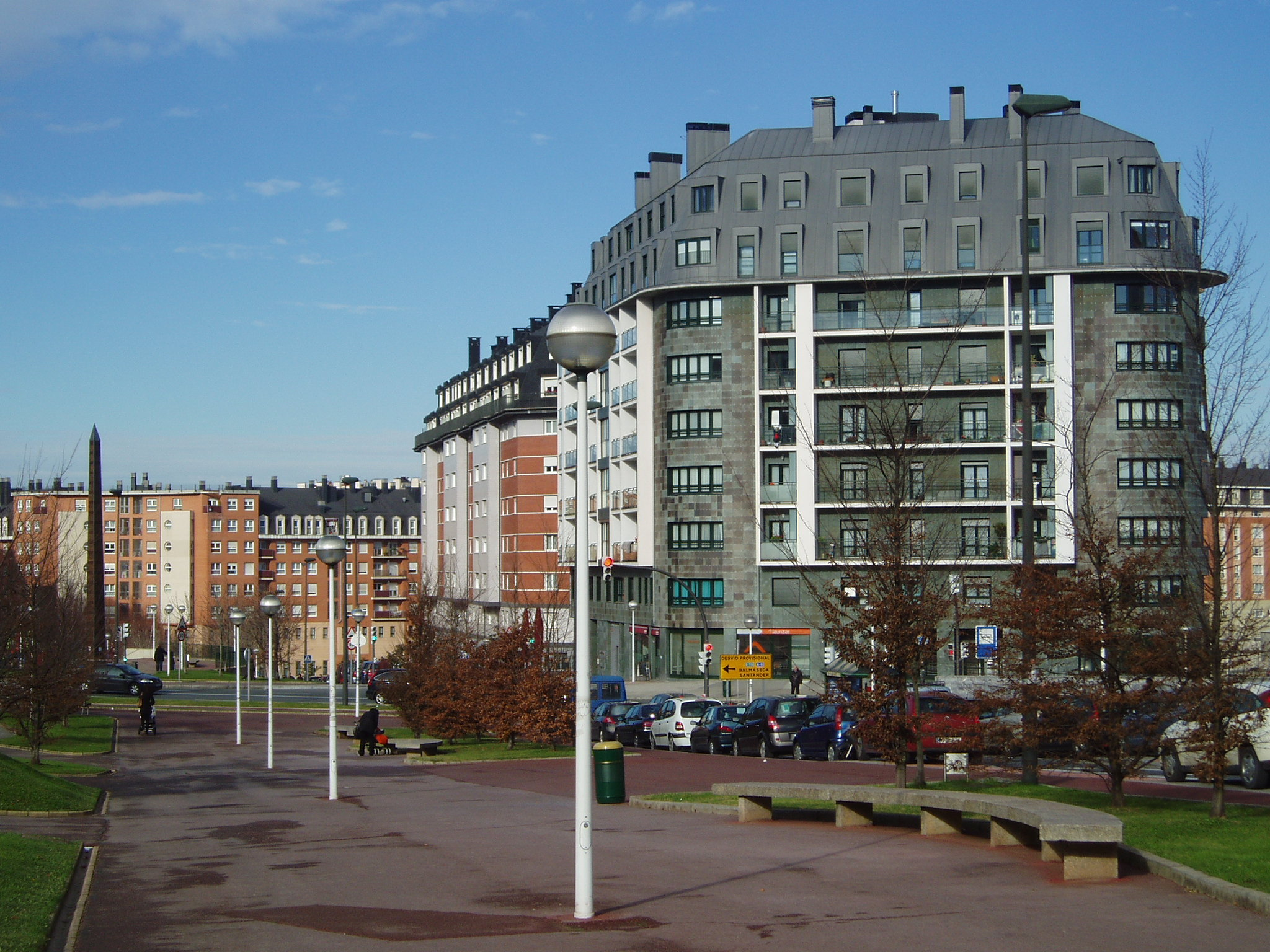 Gernika gardens. Miribilla district (Bilbao).